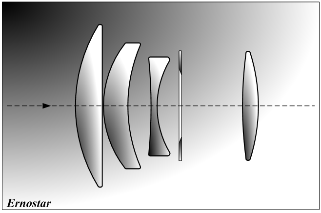 Ernostar lens.